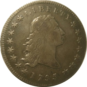 Obverse of a 1795 Flowing Hair dollar